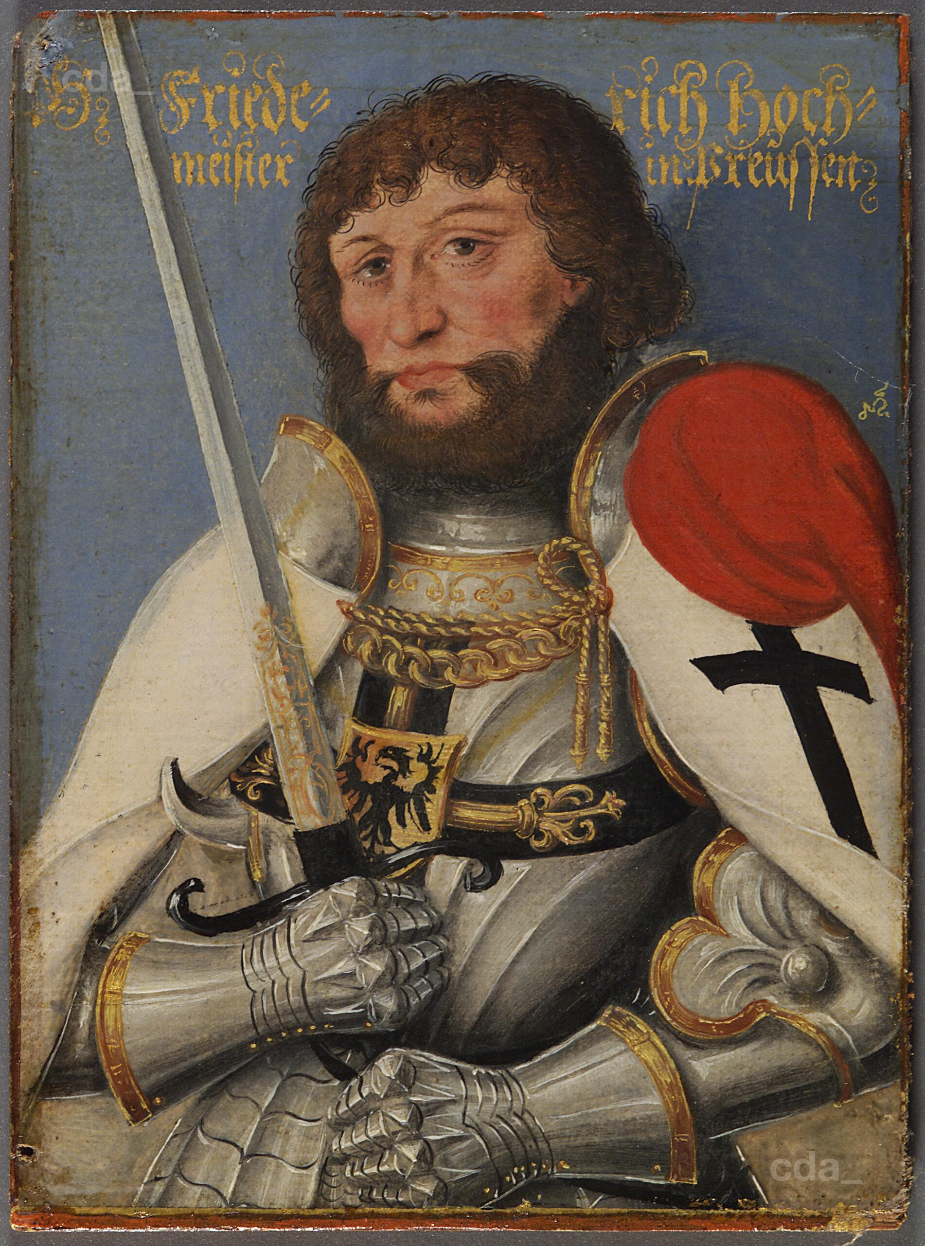 Friedrich, Grand Master in Prussia, son of Duke Albrecht the Bold, died 1510 The portraits by Cranach the Younger have a uniform blue background and a cast-shadow to one side of the sitter. As such they stand out from the other works in the series. Furthermore all 48 images are painted on canvas and not paper. They were later laminated onto wood and in isolated cases cardboard. The very uniform appearance of the reverse of all the portraits belonging to the series suggests that they were attached to the auxiliary support after entering the Ambras collection. Kunsthistorisches Museum, Vienna